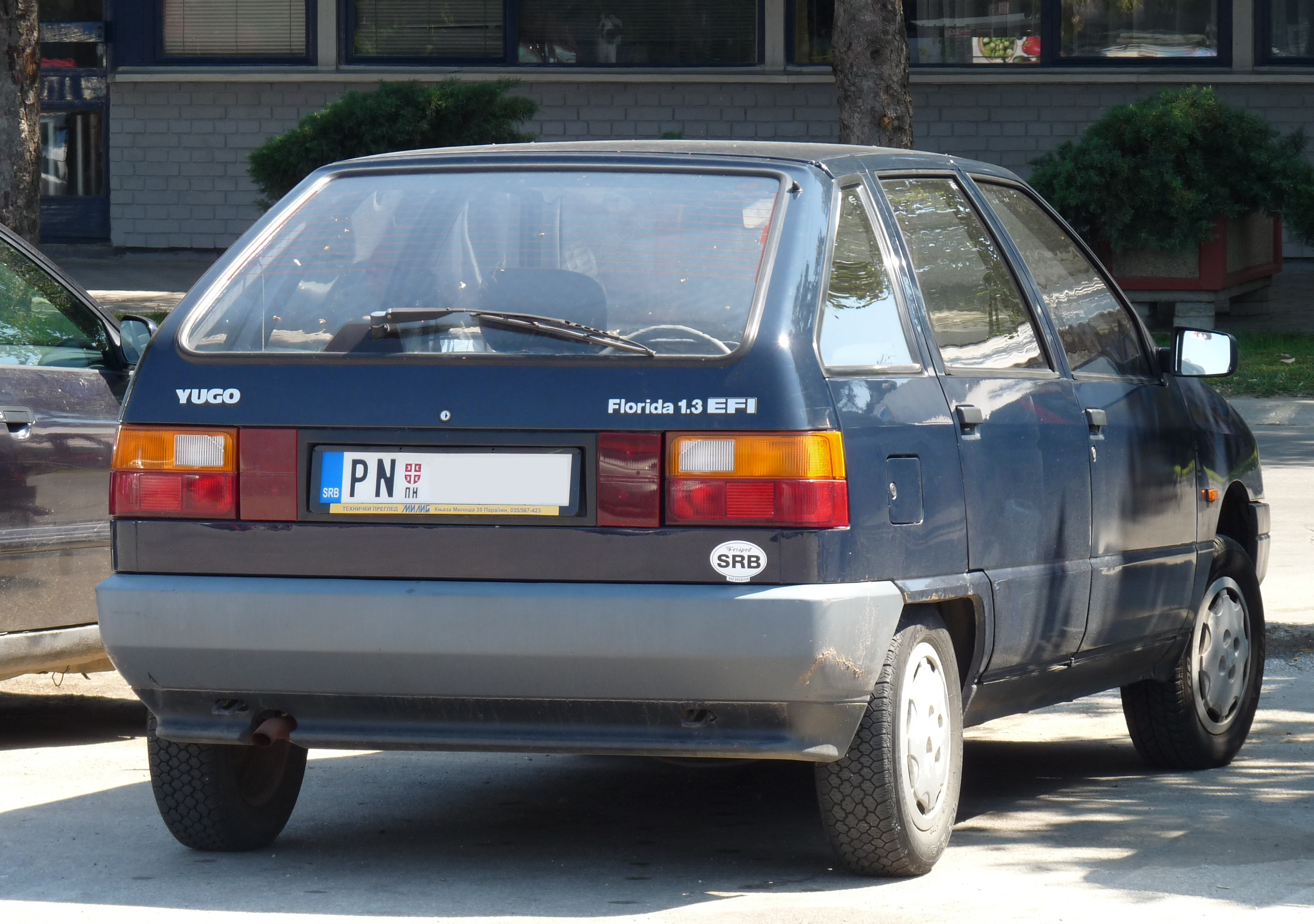 1.3 EFI 68 HP